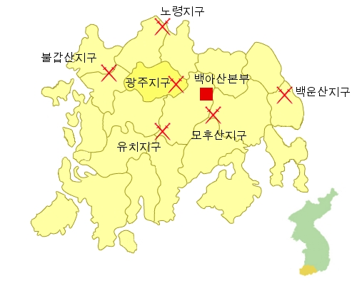 Partisans in Jeonlanam-do during the Korean War, 1950 (1950년 조선인민유격대 전남총사령부)